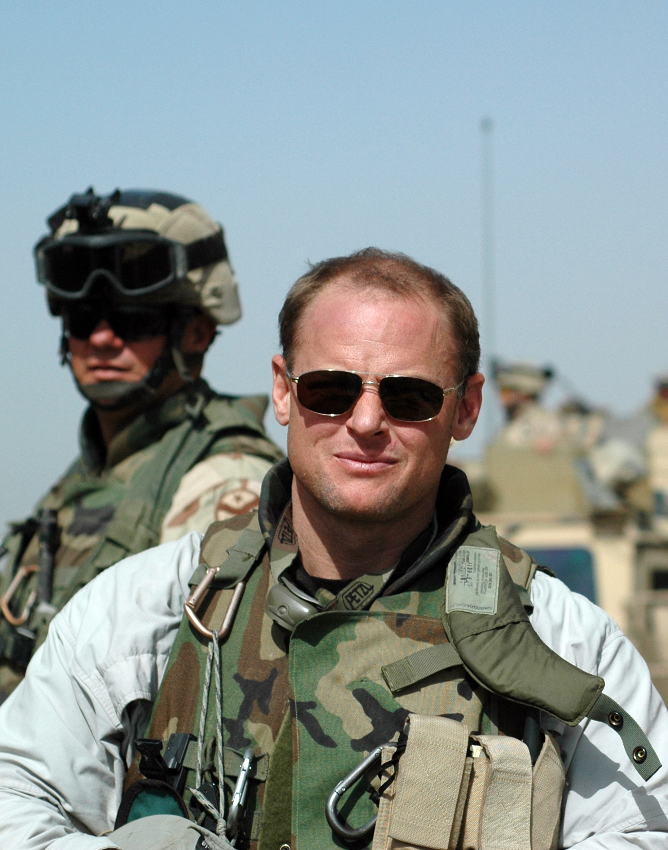 American author and blogger Michael Yon